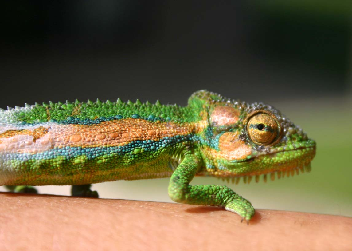 Young Cape Dwarf Chameleon (Bradypodion pumilum) shedding its shin. Taken in a garden in Tokai, Cape Province.